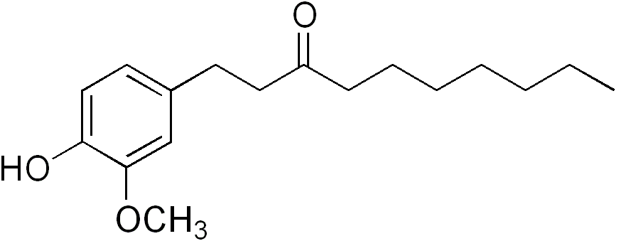 Chemical structure of [6]-paradol